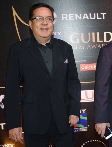 Praveen Nischol at a recent media event.